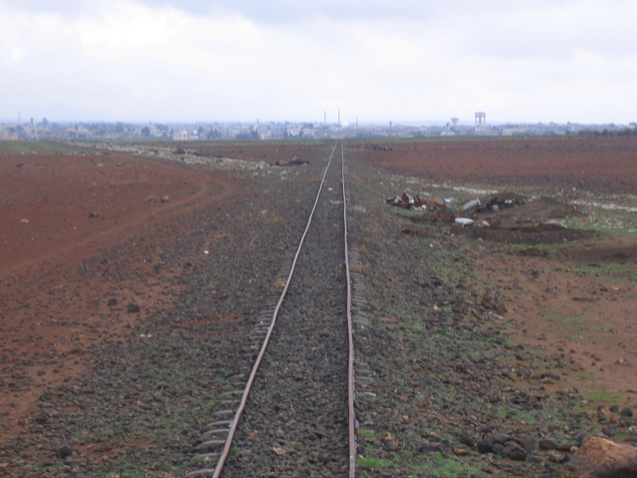 The SHR Bosra Daraa rail line crosses diagonally crosses the ancient Roman Bosra Mediterranean road, near the Hejaz railway station in Bosra.